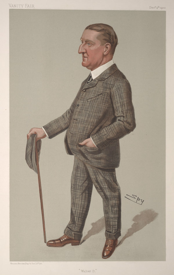 Men of the Day No.859: Caricature of Mr Walter Durnford (1987-1926). Master at Eton 1870-1899. info. Caption reads: "Walter D"